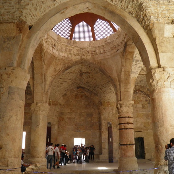 Columns of Throne Hall in the Citadel of Damascus, Syria.